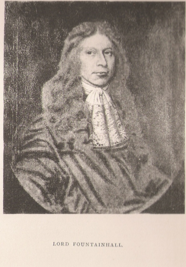 Scan of an engraving of a painting still in the possession of the Dick Lauder family. Engraving appears in Journals of Sir John Lauder, Lord Fountainhall, Scottish History Society, Edinburgh, 1900, which is out of copyright. David Lauder 10:43, 14 February 2007 (UTC)